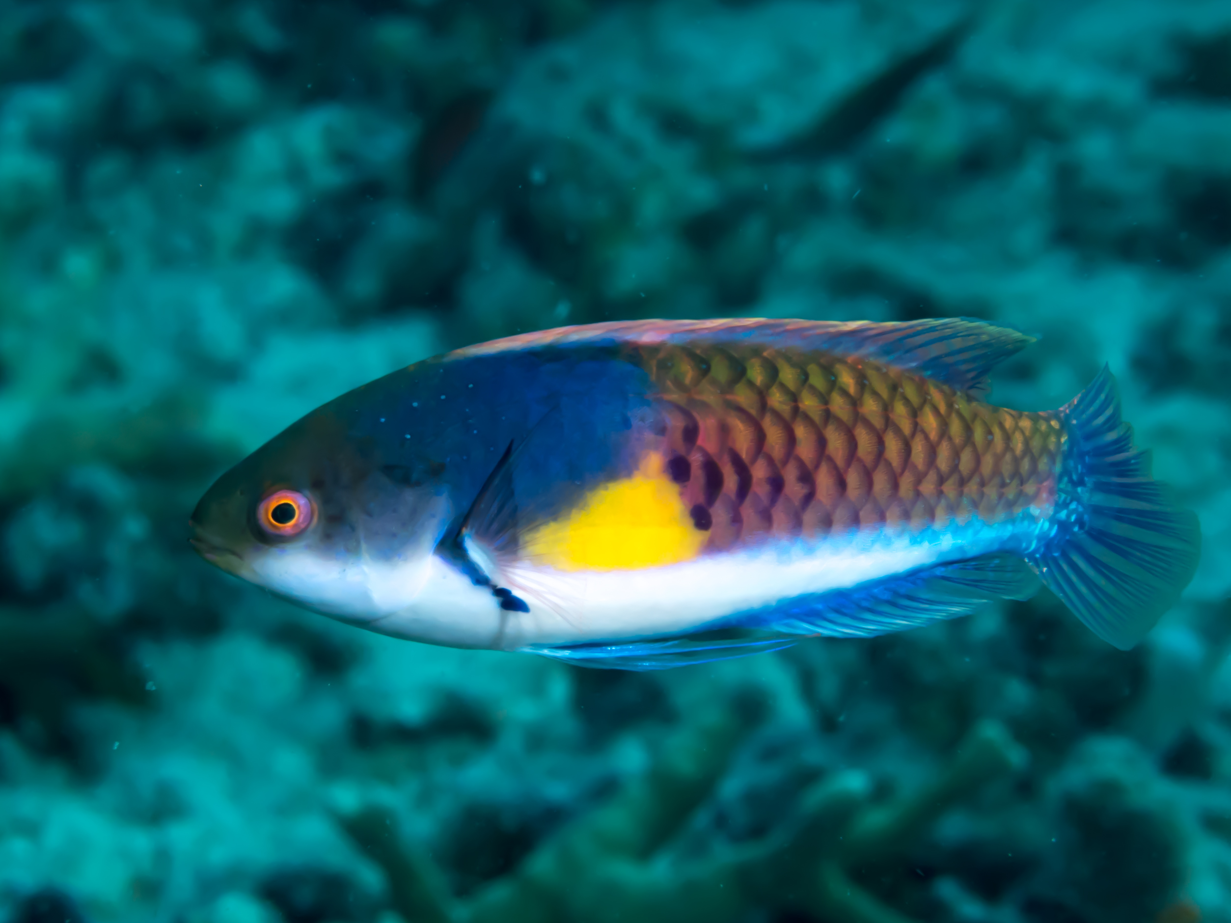 Romblon, Philippines - Blueside wrasse terminal phase (Cirrhilabrus cyanopleura)